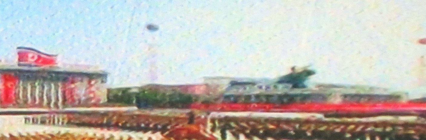 North Korea Victory Day 070